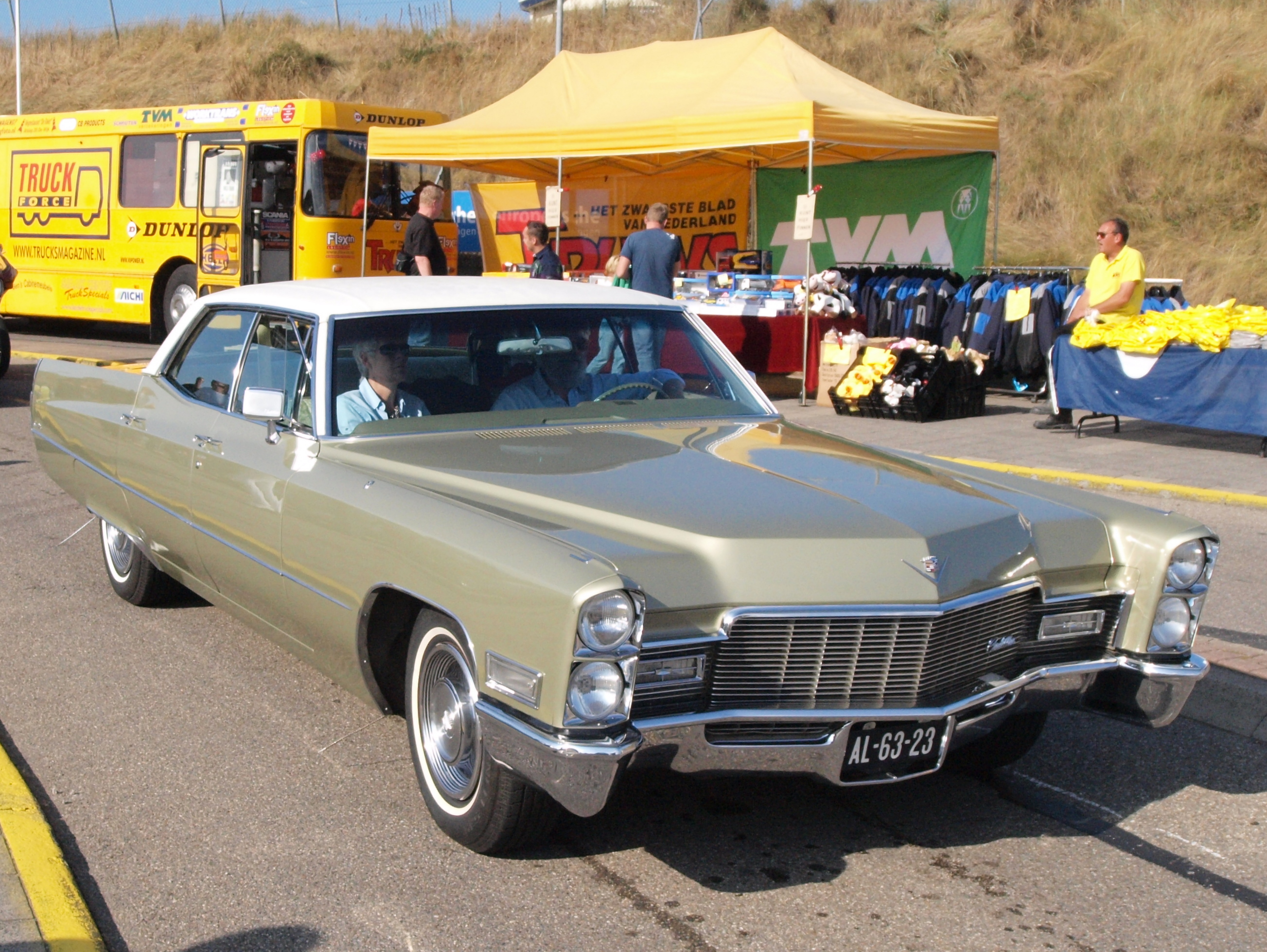 Photographed at the Nationaal Oldtimer Festival Zandvoort 2009, The Netherlands. OLYMPUS DIGITAL CAMERA